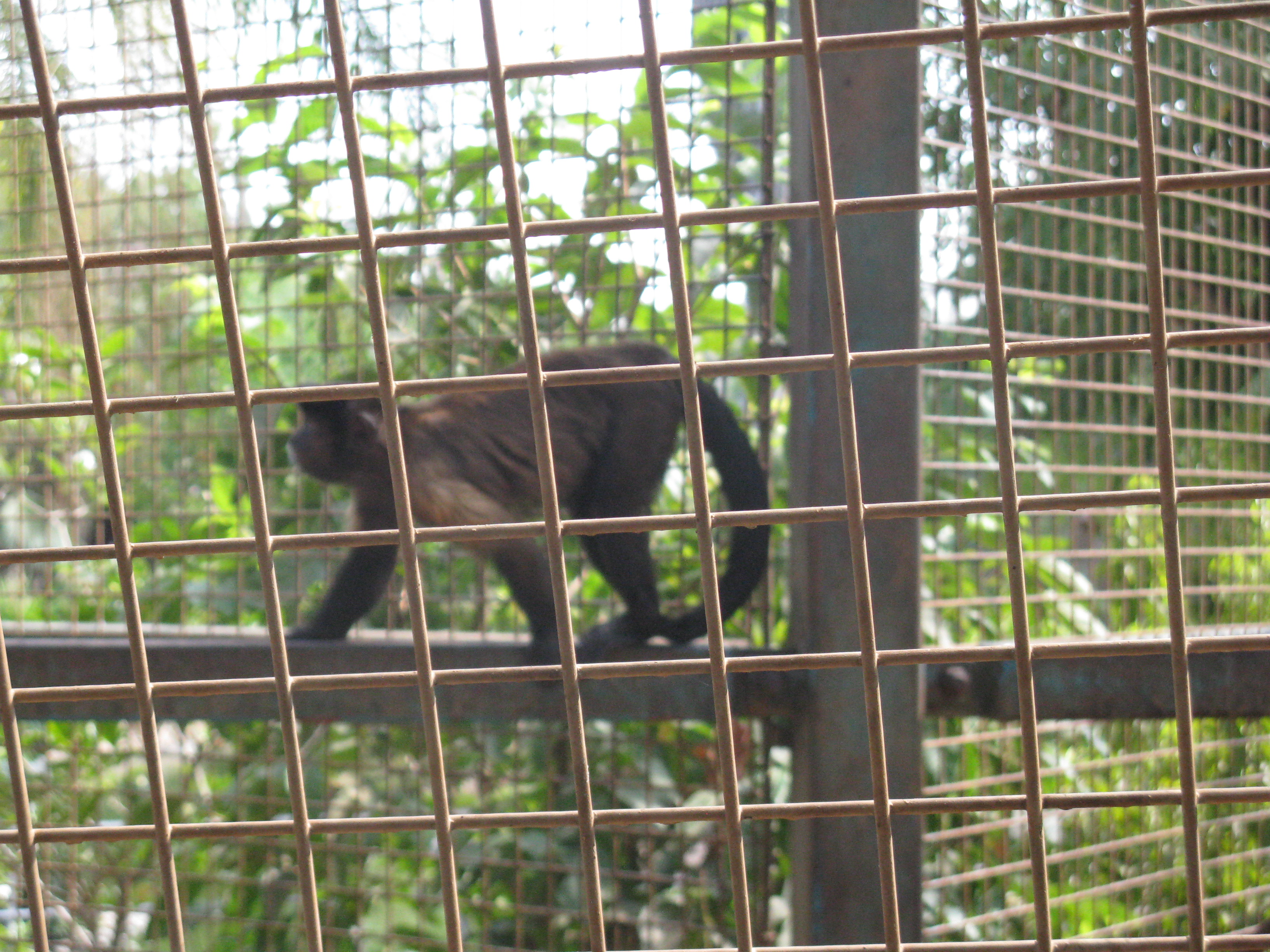 Wildlife and Plants of Israel